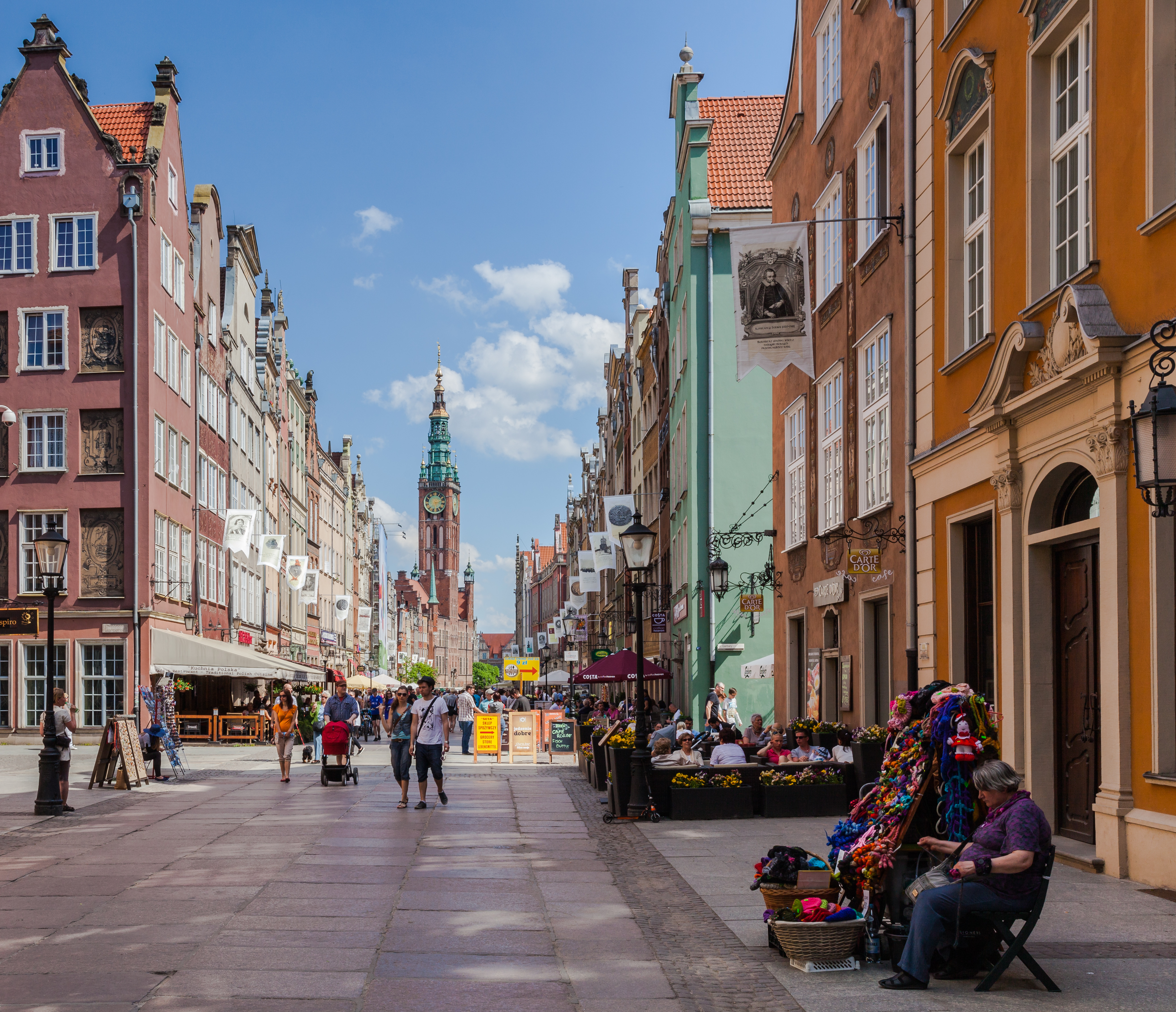 Main Town Hall at the end of Długa Street, Gdansk, Poland